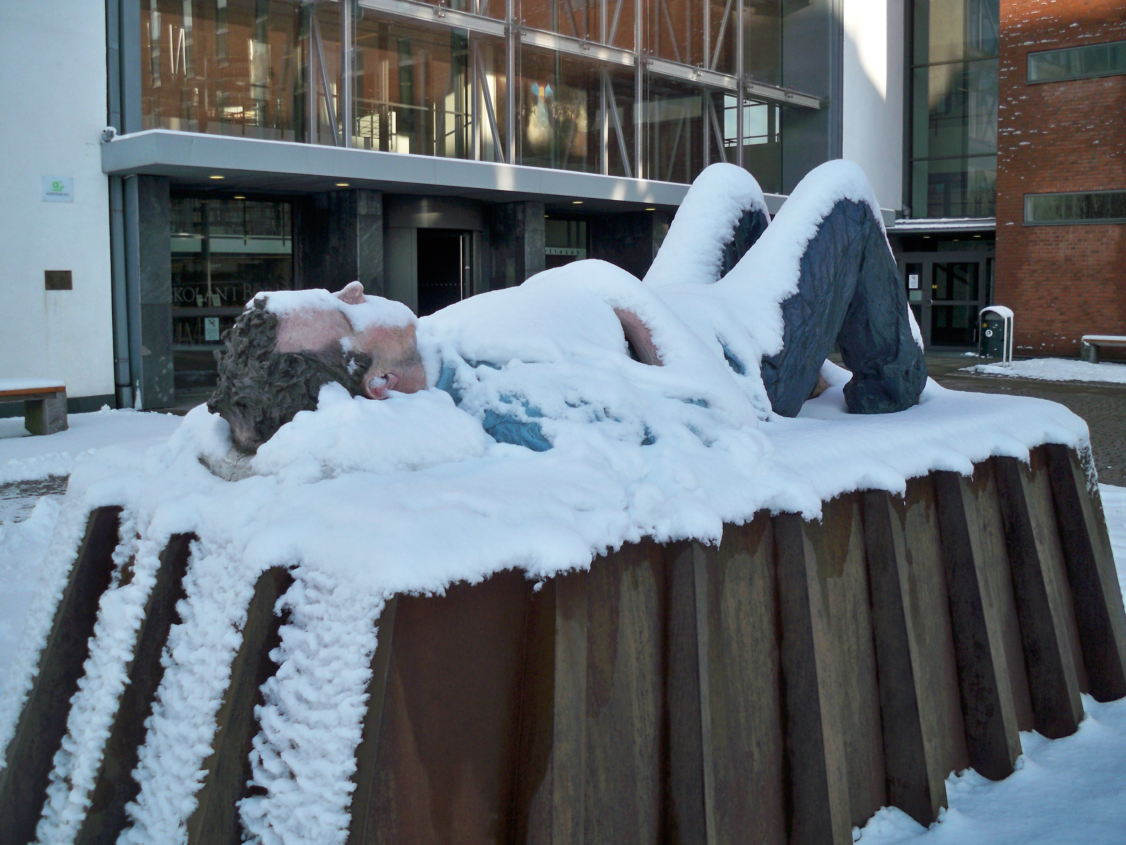 Winter outside the entrance of the university library building in Borås, Sweden. This painted bronze sculpture called Catafalque (2003) is by the British sculptor Sean Henry (* 1965).